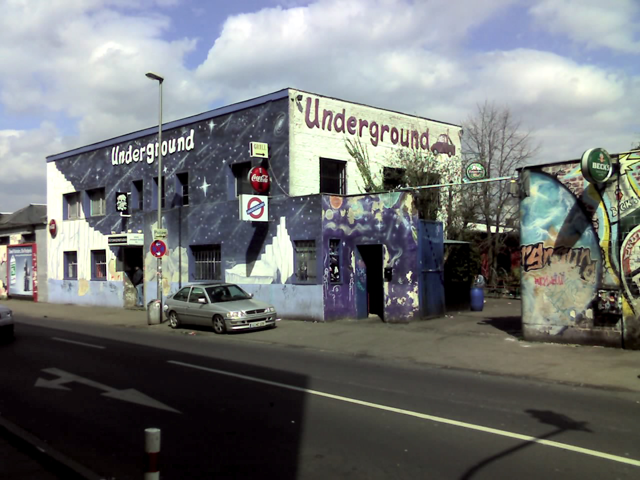 The Underground Club in Cologne (Köln-Ehrenfeld, Vogelsanger Str. 200)